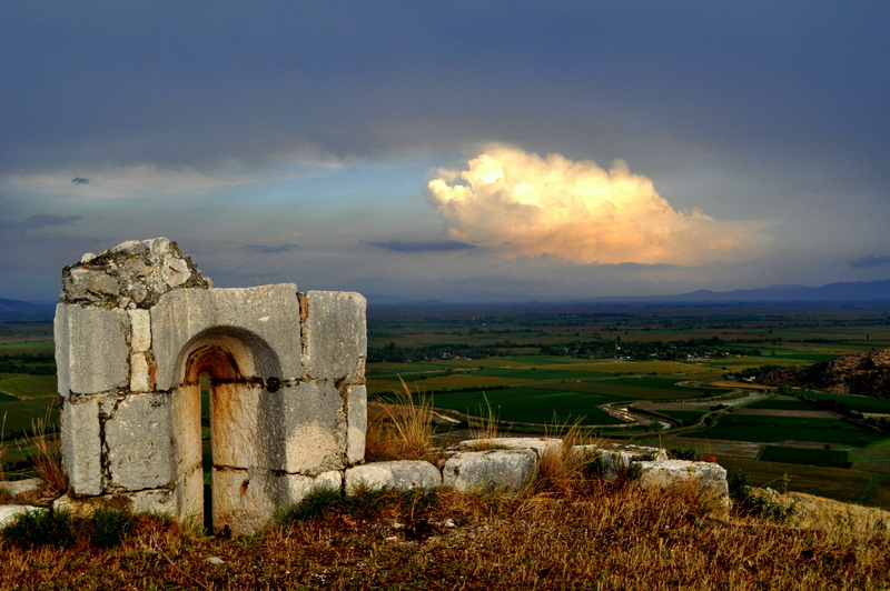 Part of the defensive works of the fortress of Anavarza alongside the remnants of a fierce summer rainstorm. Anavarza is an impressive fortress sitting on a massive limestone escarpment which rises to a height of 2 km. and has a very capricious climate. This may be the site of ancient Kundu, a 7th century Assyrian foundation, but the first evidence for actual identification comes from 1st century BC coins. The name may be derived from the Persian "nabarza", which means unconquered, and should have originally applied to only the upper portion of the settlement. The city was part of the realm of Tarcondimotus II, who ruled a large part of the Cilician plain around 52 BC. The city seems to have come under direct Roman rule by the rule of Claudius (42-54 CE). The pathetic emperor Elagabalus was once one of the demiurges. Anavarza was the principal settlement of Cilicia Secunda during the reign of Theodosius II (408-450 BCE). Though it declined during the Byzantine period, it was the capital of the Armenian kingdom from 1100-1200 CE. The city was completely abandoned when the Marmalukes defeated the Armenian kingdom in 1375 and was never reoccupied.